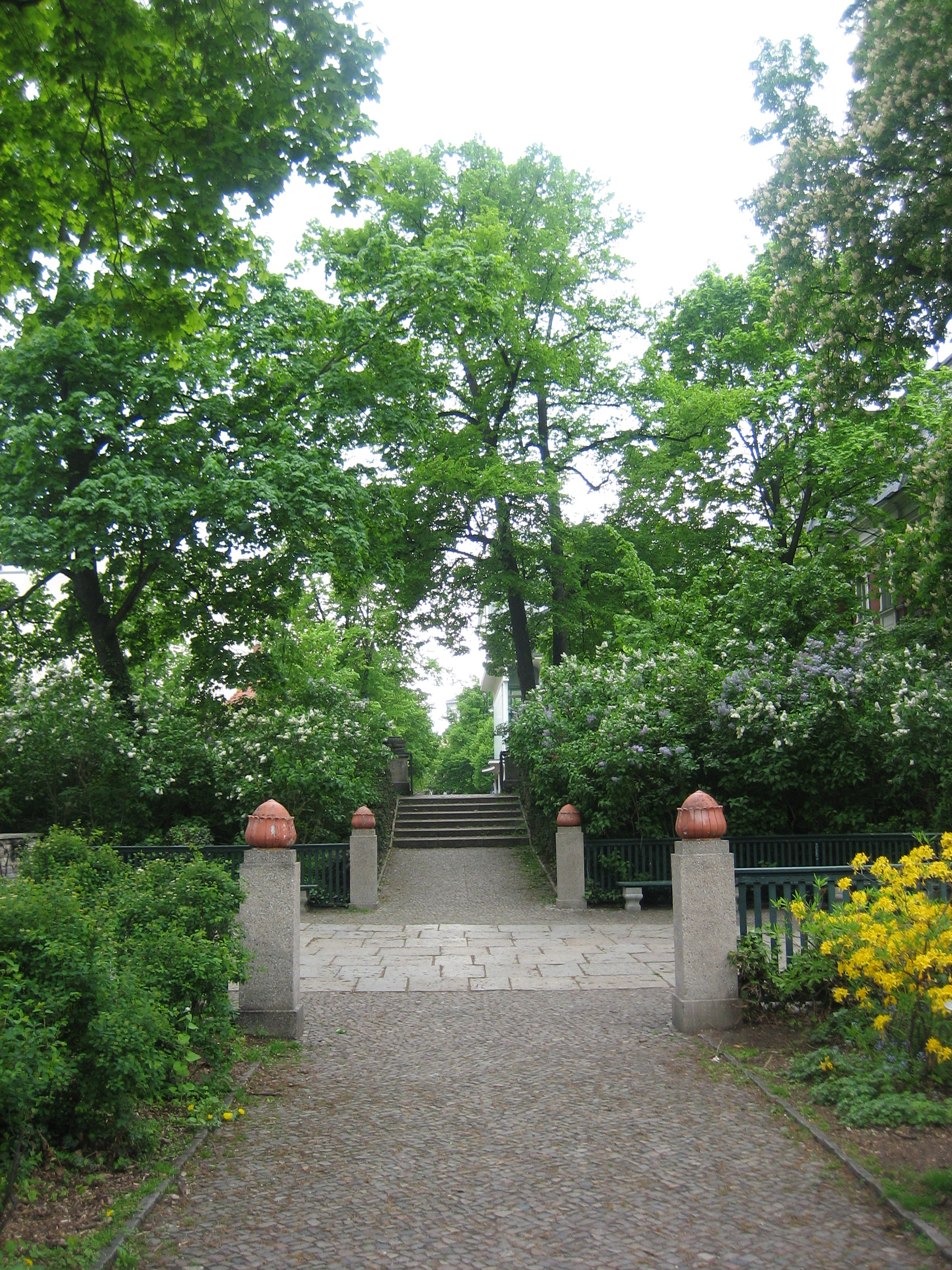 Schustehruspark, Berlin-Charlottenburg